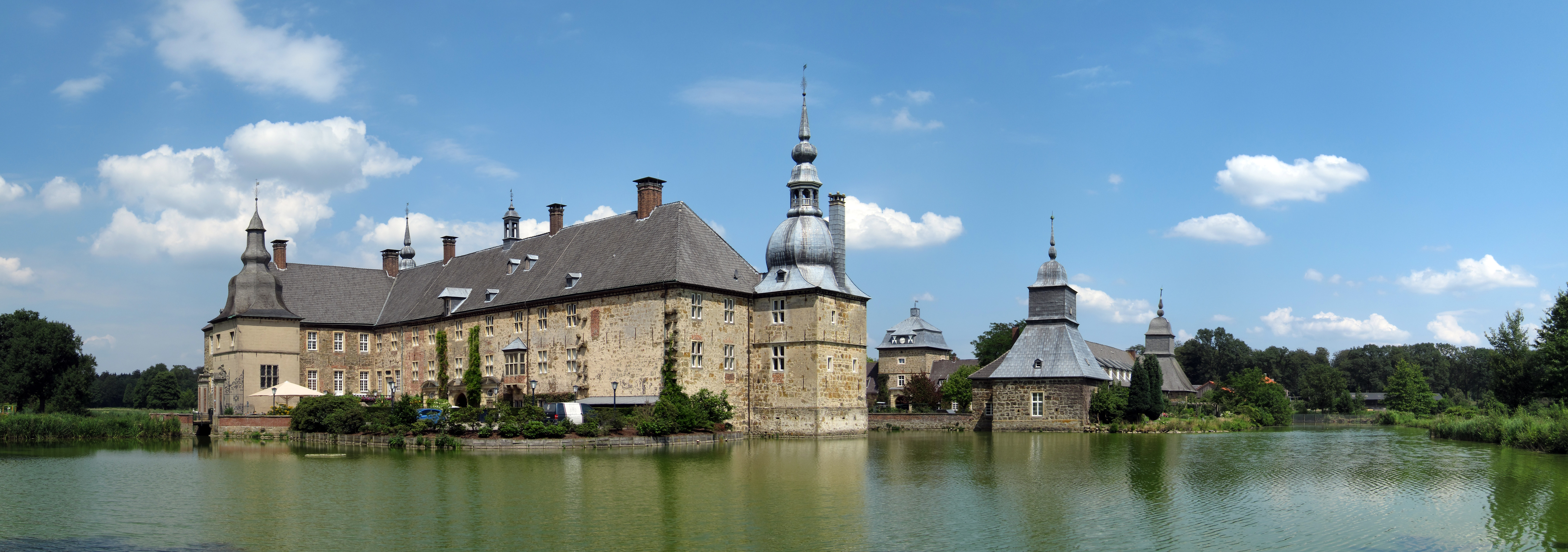 Lembeck caste near Dorsten, in the northern tip ot the Ruhr, was built in several phases, principally in the 17th century. Nowadays, the castle is used as an hotel and restaurant, surrounded by a park. The castle is mainly in the 17th and 18th century style, and a part of it can be visited.